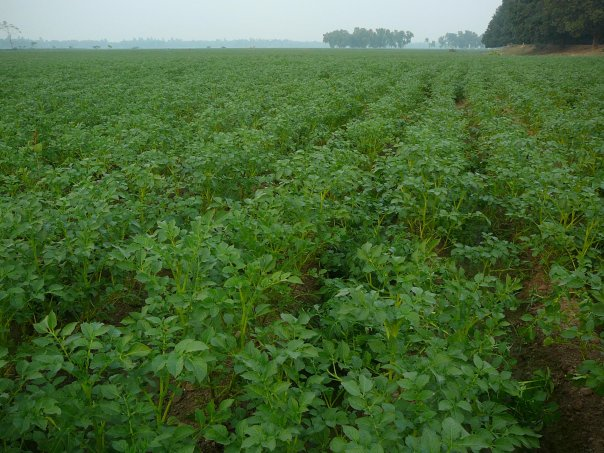 Potato field in Ghughu-danga,Dinajpur